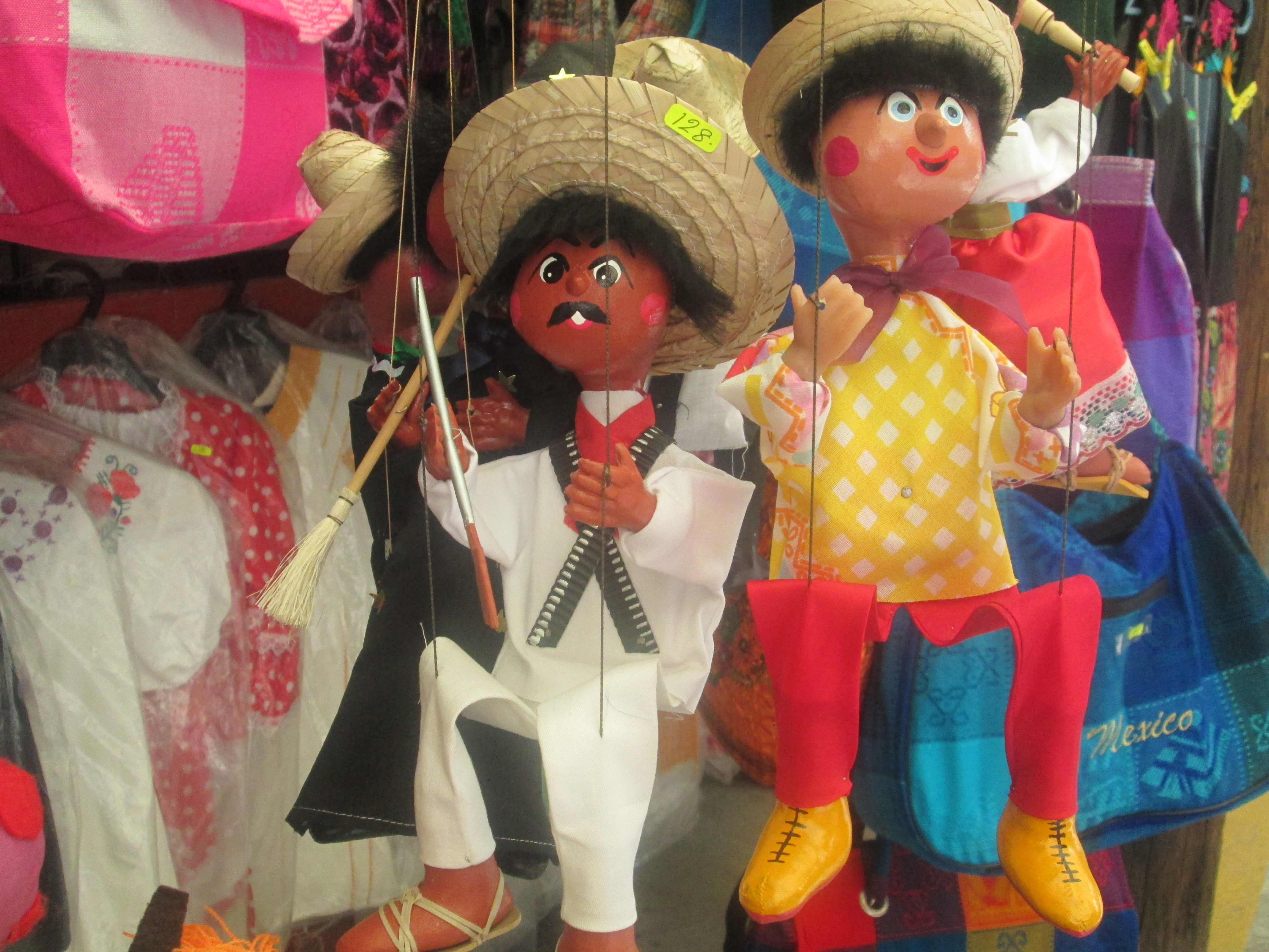 Puppets of Mexico